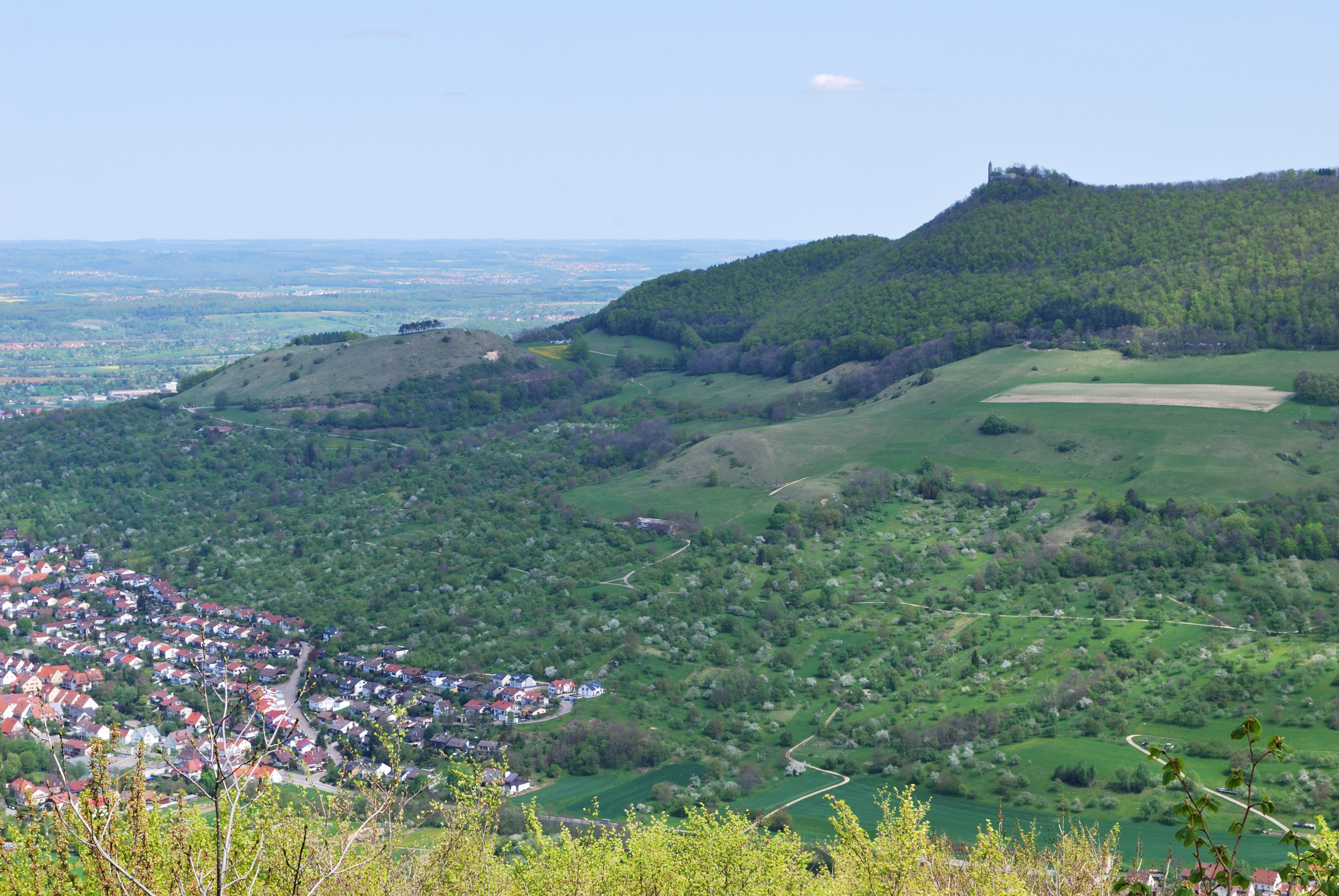 Owen and the castle Teck at the Albtrauf of the Swabian Alb in Baden-Württemberg.The mountain Teckberg and its smaller neighbour Hohenbol are both extinct volcanoes. Except for the meadow orchards on the slopes the area is protected as a Naturschutzgebiet.